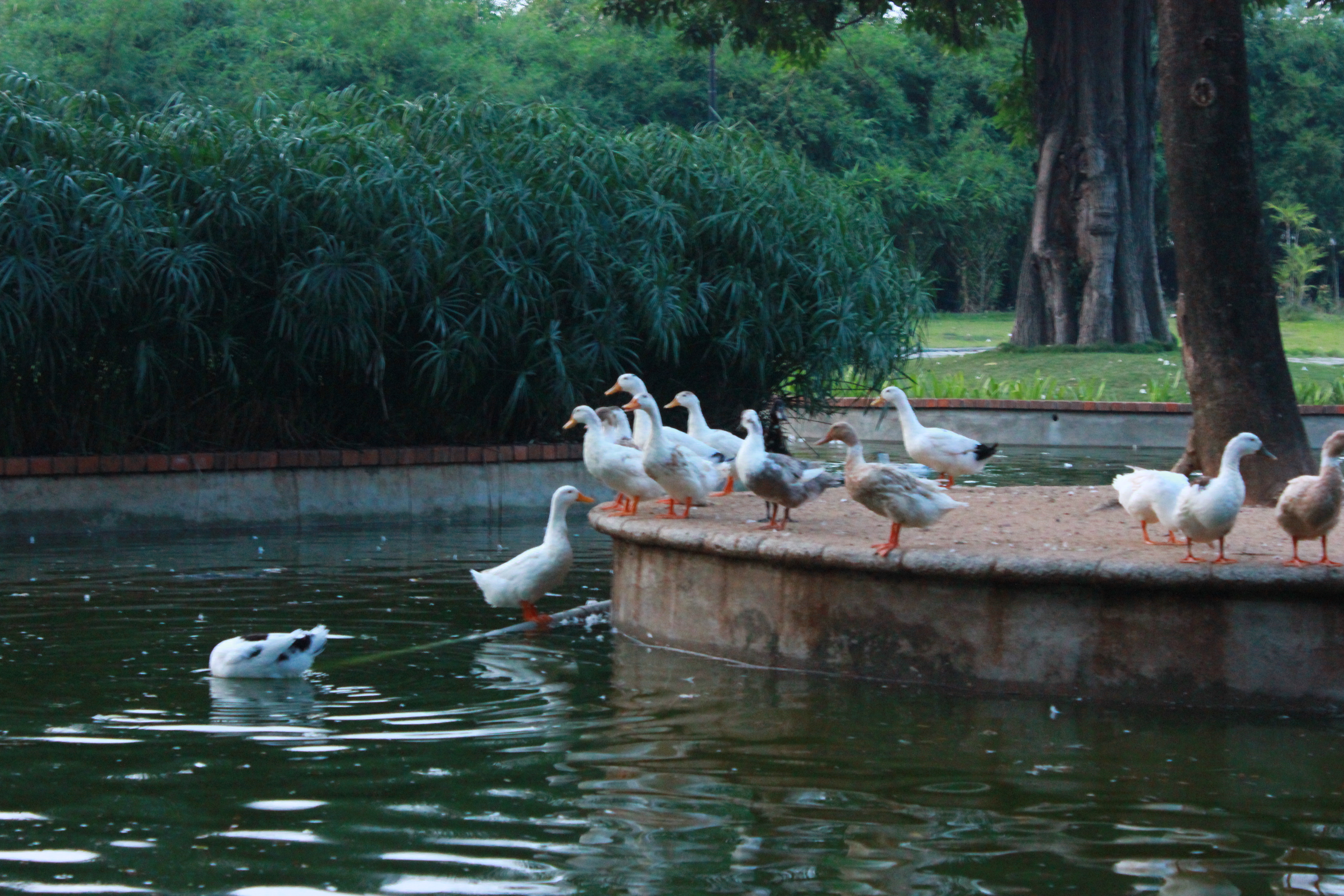 Photograph taken at Semmozhi Poonga during one of my photowalks